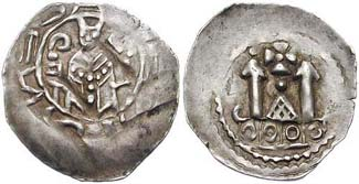 Italy, Aquileia. Ulrico di Treven, patriarch (1161-1181). AR Denaro (1.21 gm). Bust of patriarch standing facing holding Gospel and crosier; Church nave topped with cross.